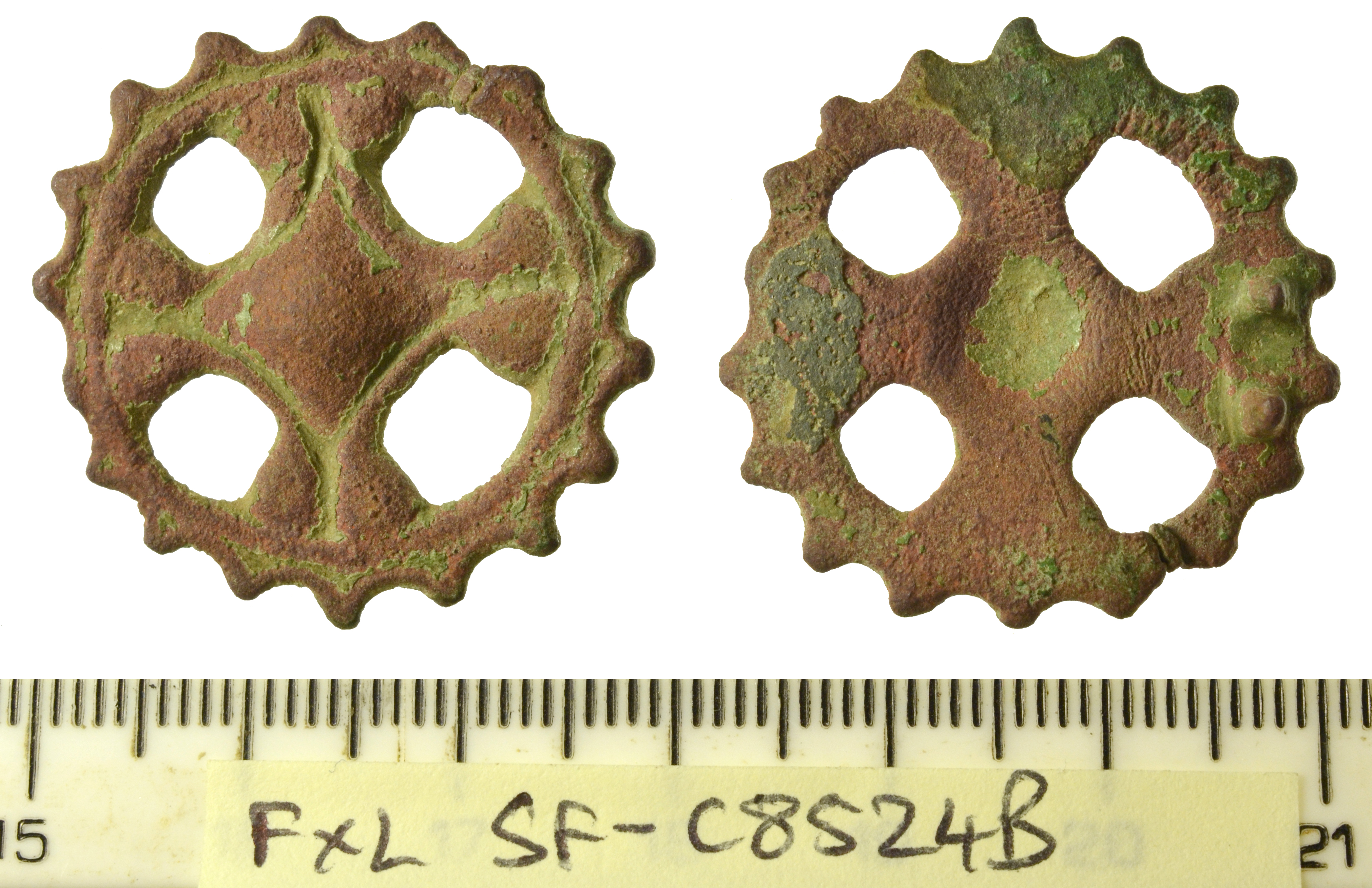 An incomplete copper-alloy cogwheel brooch of Early-Medieval date, missing its pin, outer edge of the pin lug and catchplate due to old breaks. The brooch has a flat circular plate with openwork and moulded decoration. This comprises a central cross-shaped motif with central lozenge shaped panel and sub-rectangular perforations in each quadrant. At the centre the lozenge has a slightly domed front face, and the sides of each arm of the cross have moulded ridges that terminate at the outer edge of the plate in raised pellets. The outer edge of the plate has a moulded border with central groove, the exterior edge having a series of rectangular crenellations around its circumference. These number eighteen in total. On the back face of the plate is an incomplete but integrally cast pin lug, missing its outer edge and any corresponding catchplate due to old breaks. The centre of the back face is slightly concave. This brooch measures 28.99mm in diameter, 2.93mm in thickness and 4.98g in weight. This is a Middle Anglo-Saxon disc brooch, or 'cogwheel' brooch. It finds parallels in published examples (Hinton, 1974: no. 14) as well as in examples recorded through the PAS database (e.g. SF-497CD2, NMS-BBA6F6). These suggest a date range for the current example in the 9th century AD.